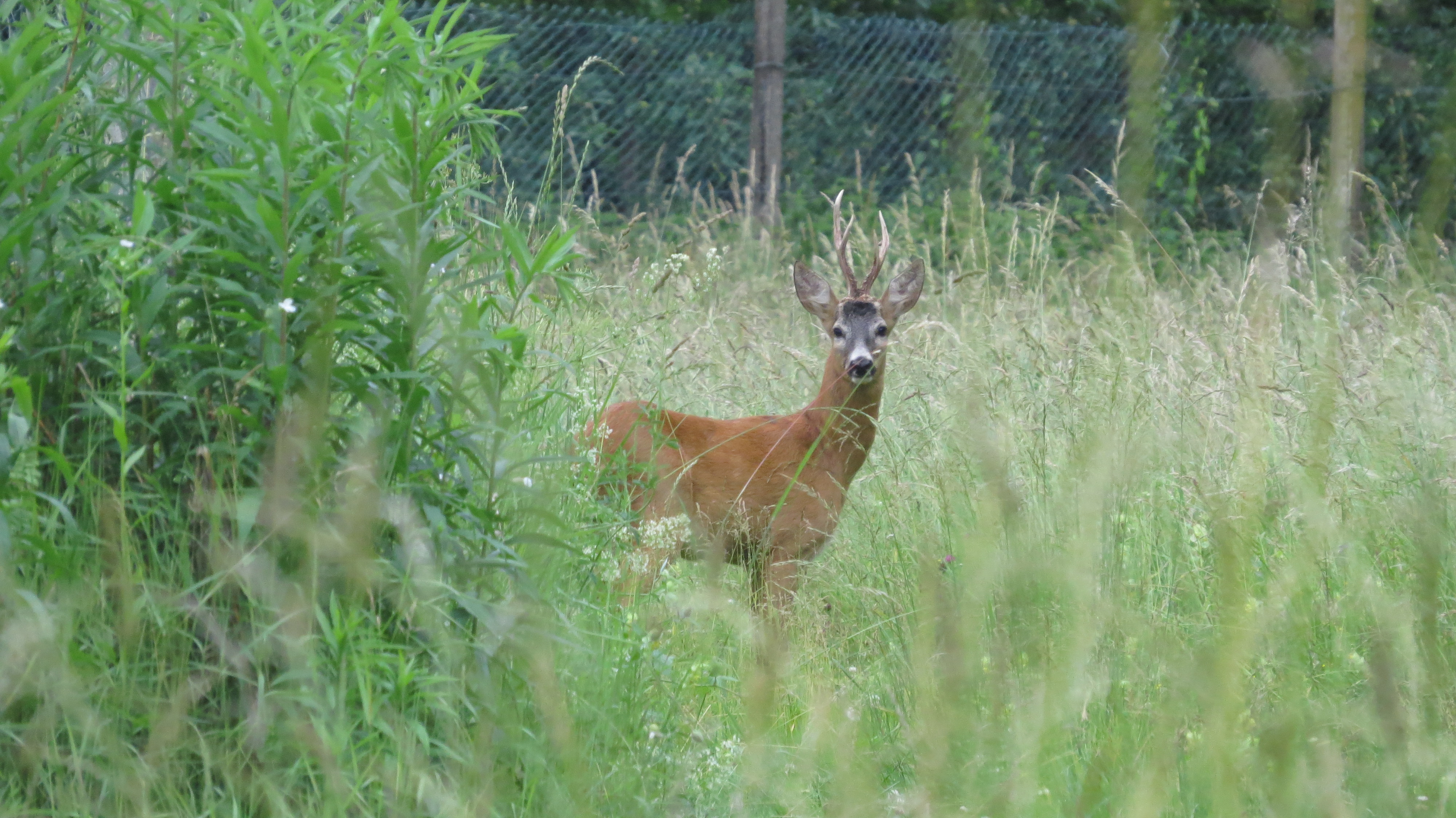 A male of roe deer (Capreolus capreolus) that is looking to me at the Inghiaie biotope (Levico Terme, Trento, Italy)